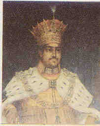 Ghazi-ud-Din Haider (1769-1827)